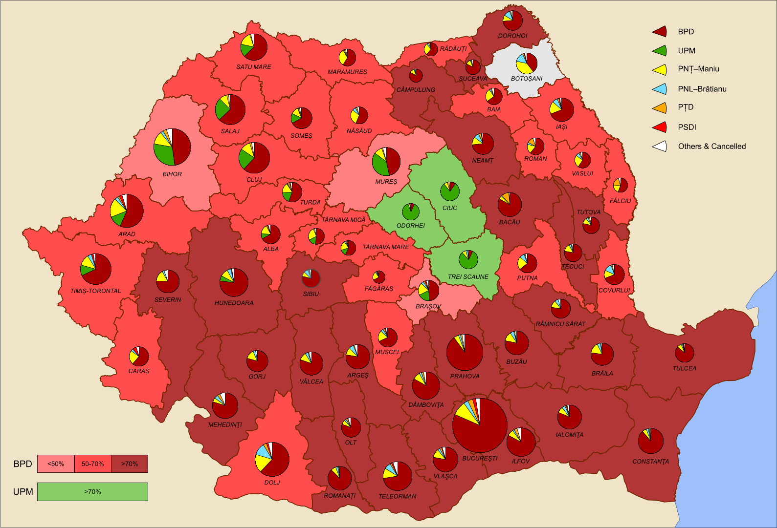 Official results of the Romanian general elections of 1946, per data in Ioan Scurtu (ed.), România. Viaţa politică în documente 1946. Arhivele statului. Bucureşti, 1996, pp. 504-509